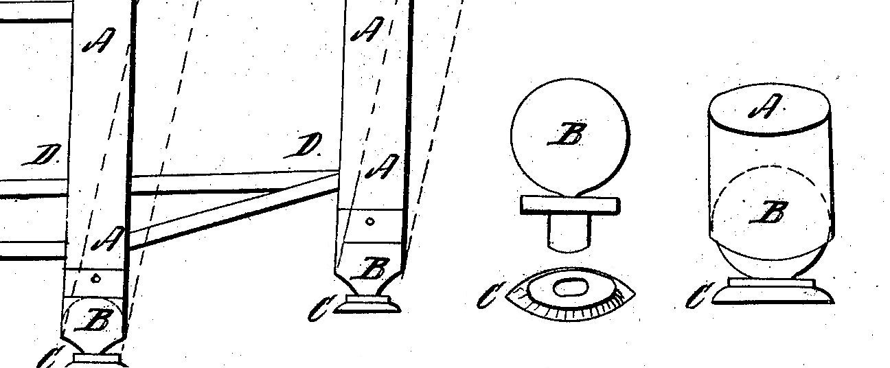 U.S. Patent No. 8771 drawing cropped for close in of ball bearing mechanism